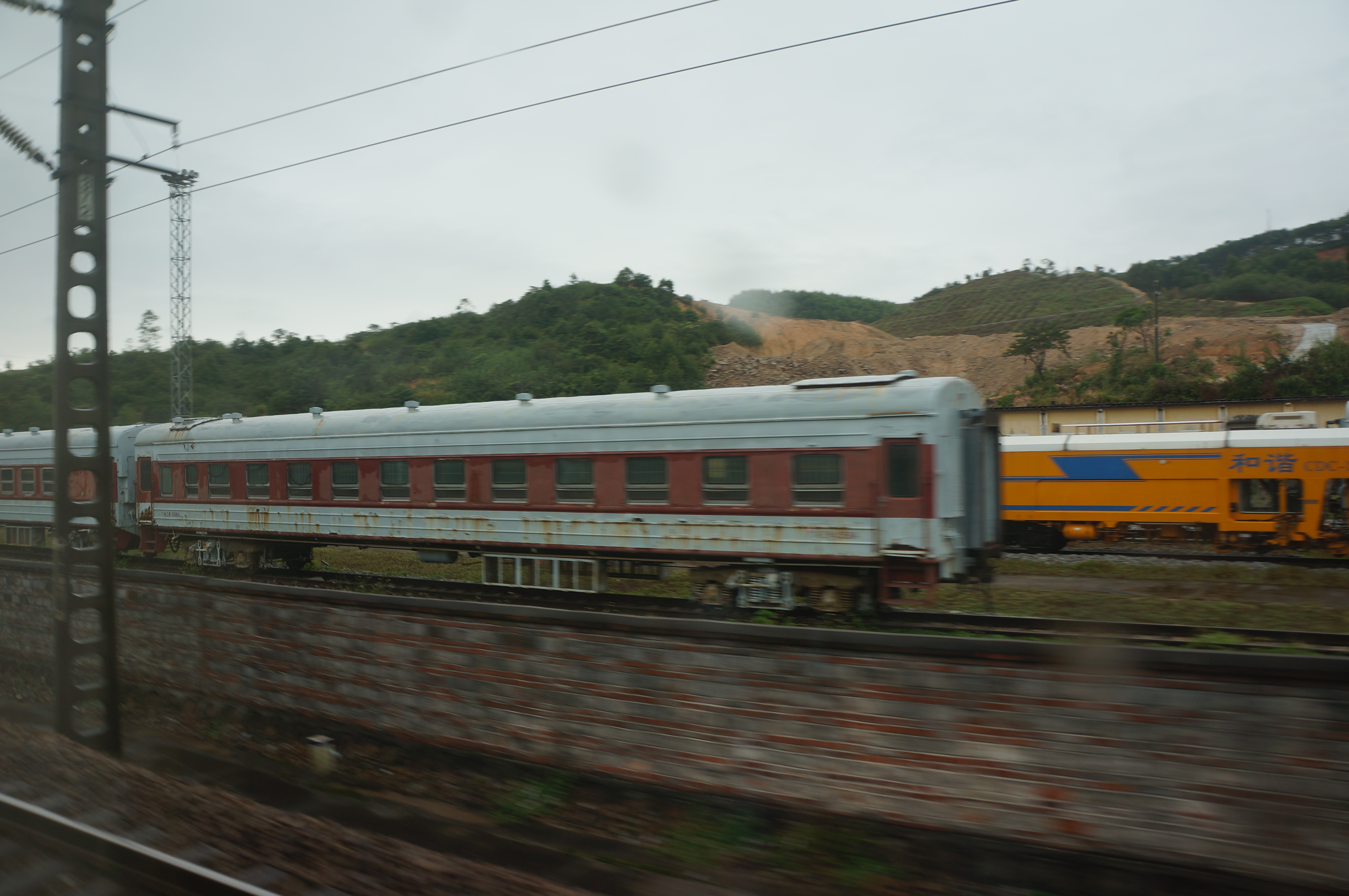 201609 Z99 passes Yinzhan'ao Station， engineering coaches (marked as Guangzhou Railway Bureau) park here